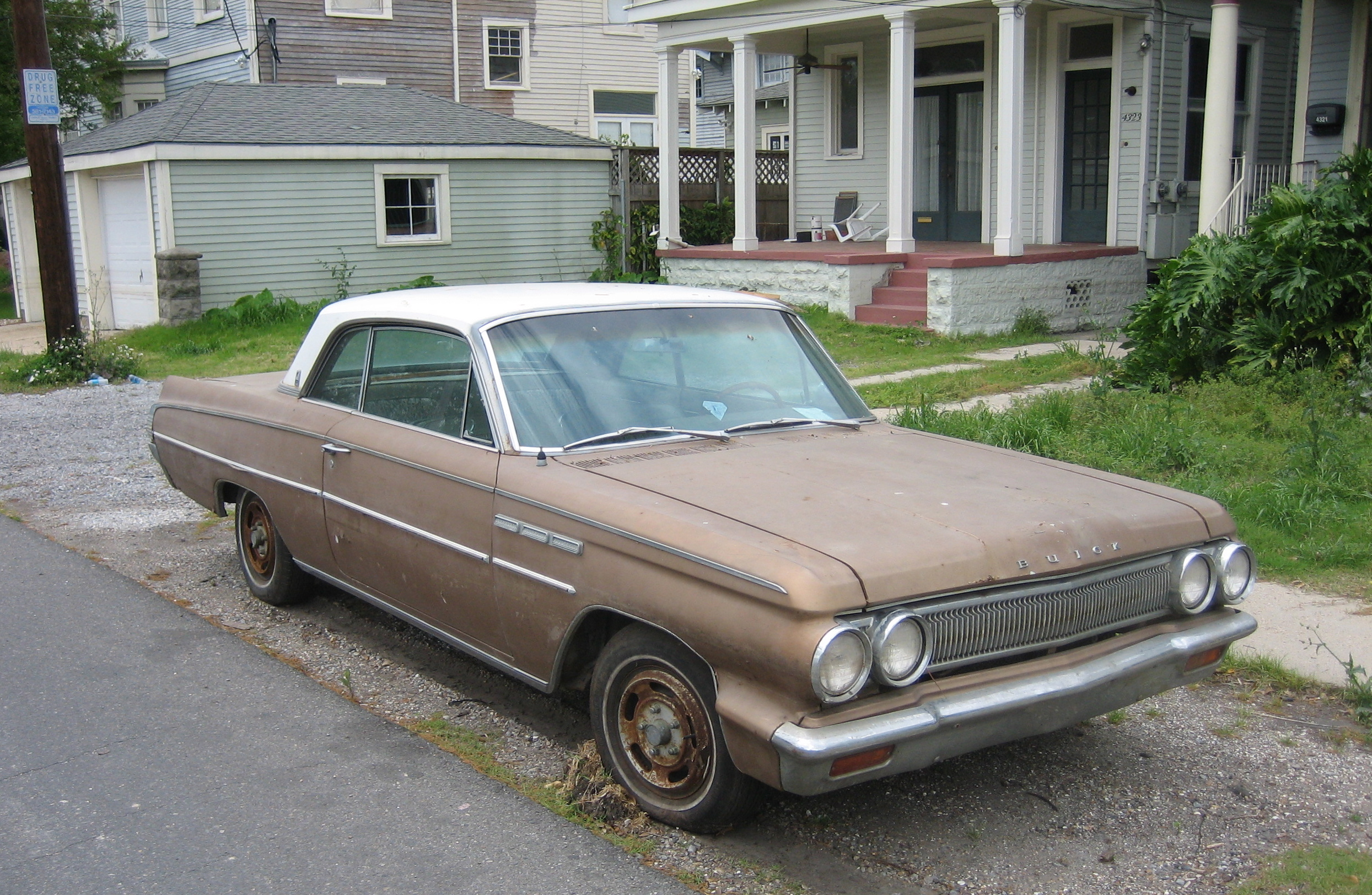 Buick Skylark, 1963 on street in Uptown New Orleans, 2006.